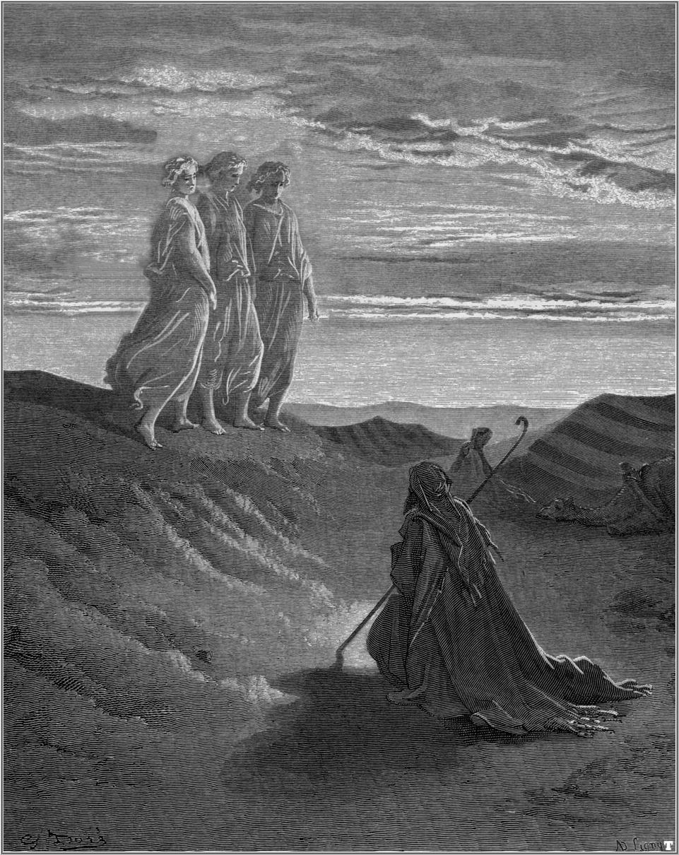 Apparently an altered version of File:Abraham and the Three Angels.png. The angel's wings have been removed using a Clone tool.